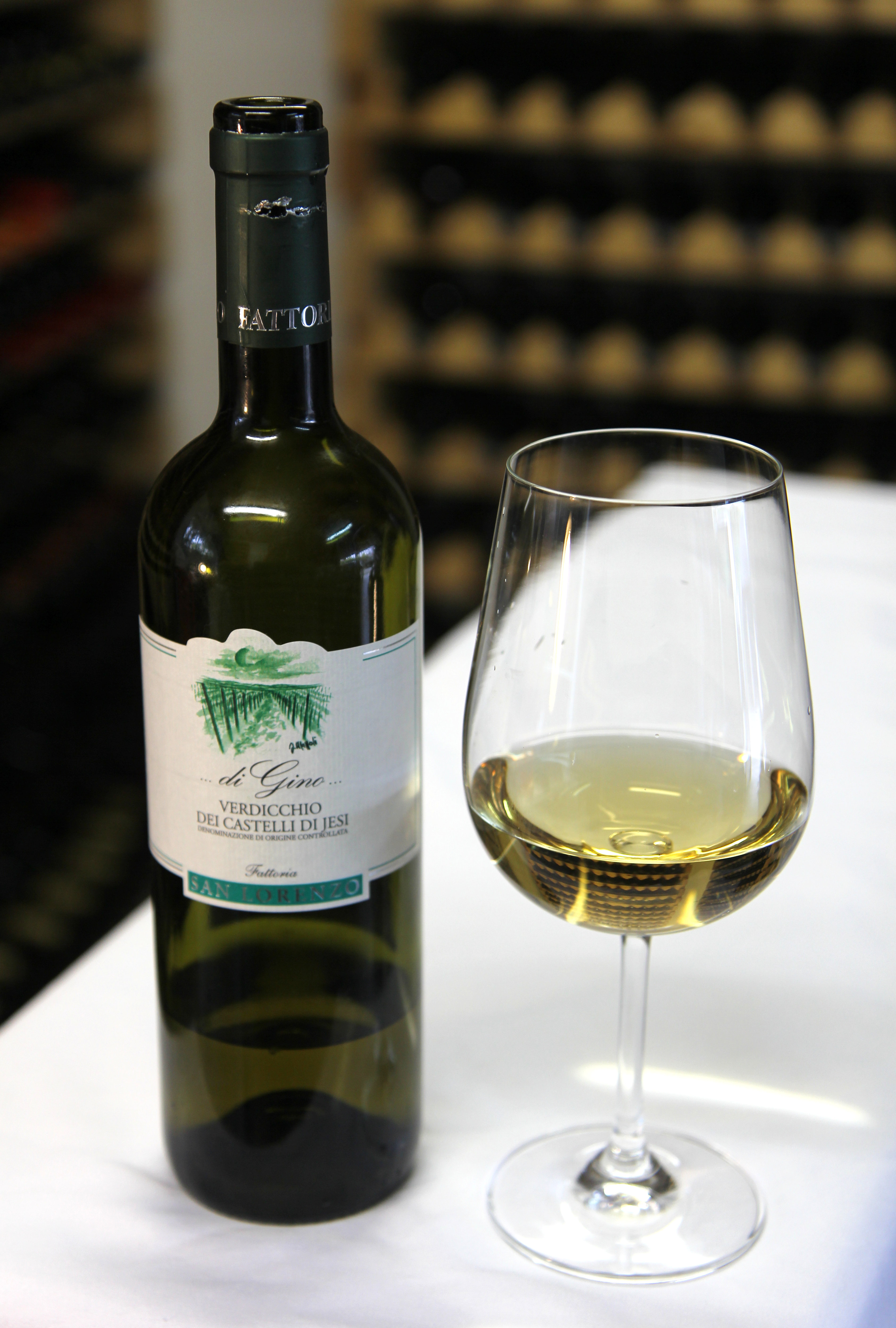 Verdicchio dei Castelli di Jesi DOC wine, in a glass and opened bottle. Photographed in author's cellar, September 2017. Photographed by the uploader: Jon (talk) 00:03, 24 September 2017 (UTC)